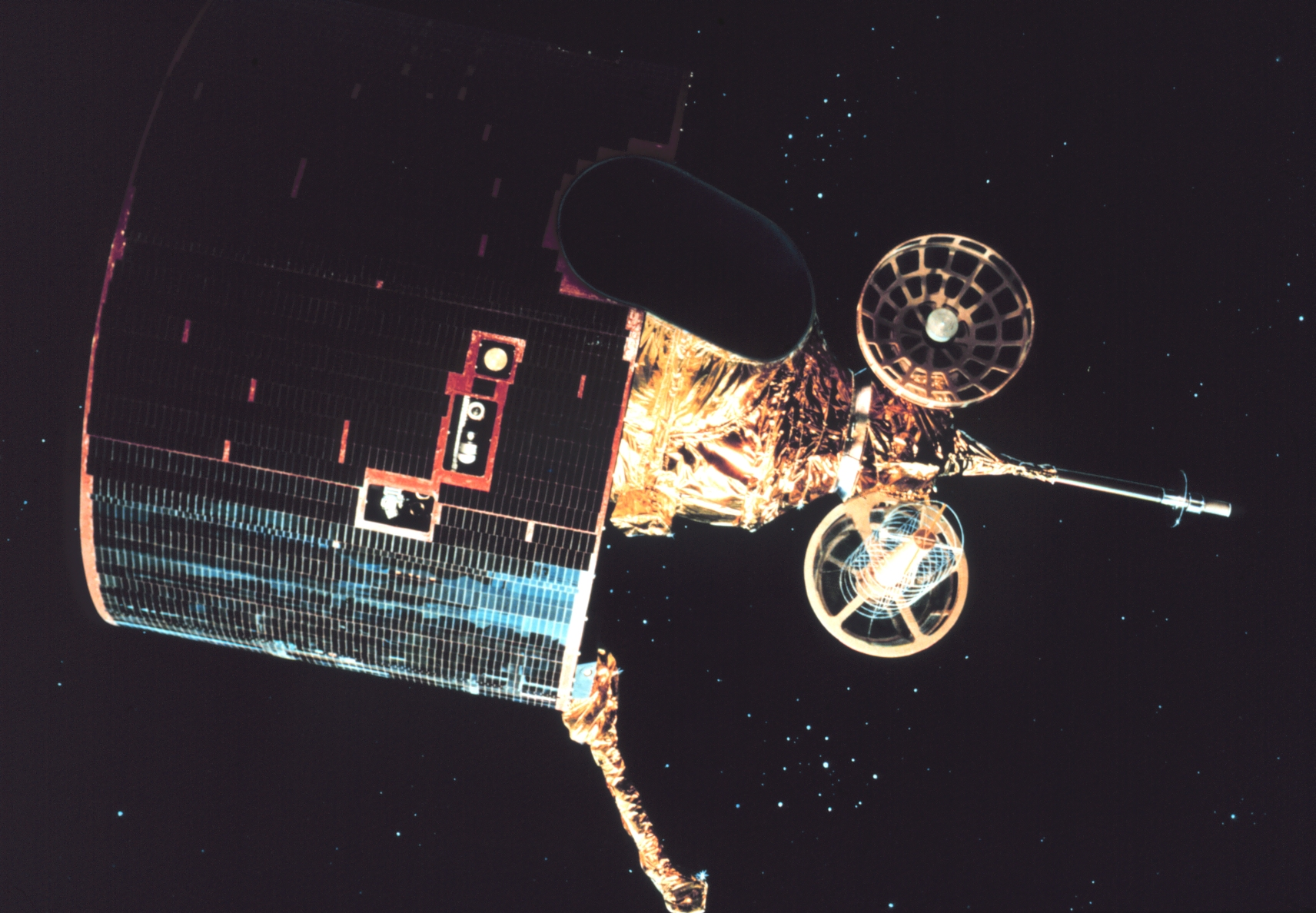 Graphic of 2nd generation GOES satellite in orbit.